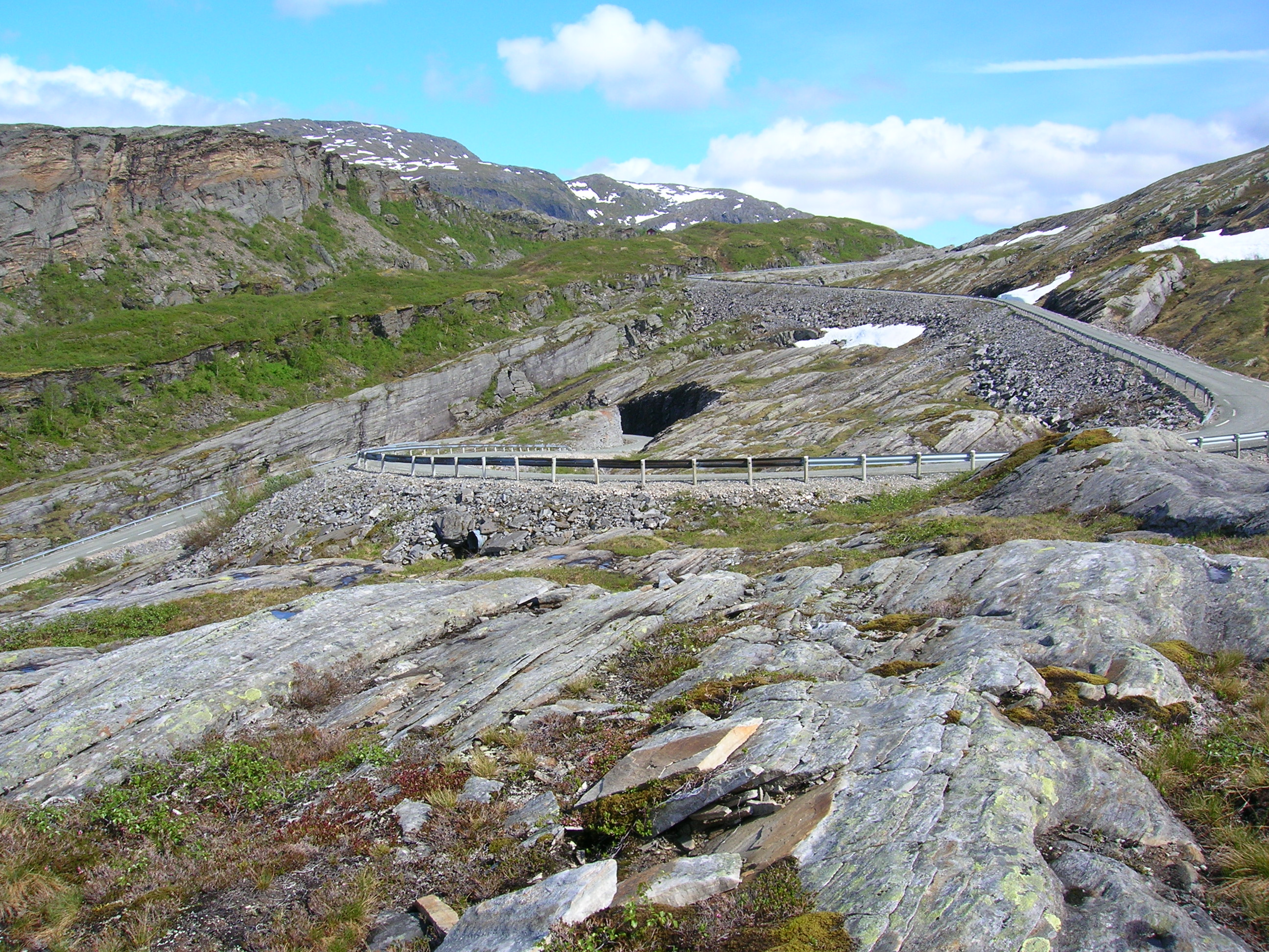 Photo on Melfjellet, east of Melfjorden, in the municipality of Rødøy, the county of Nordland, Norway, Photo 17 June, 2006 with a Nikon Coolpix 5600 5,1 Megapixel camera.